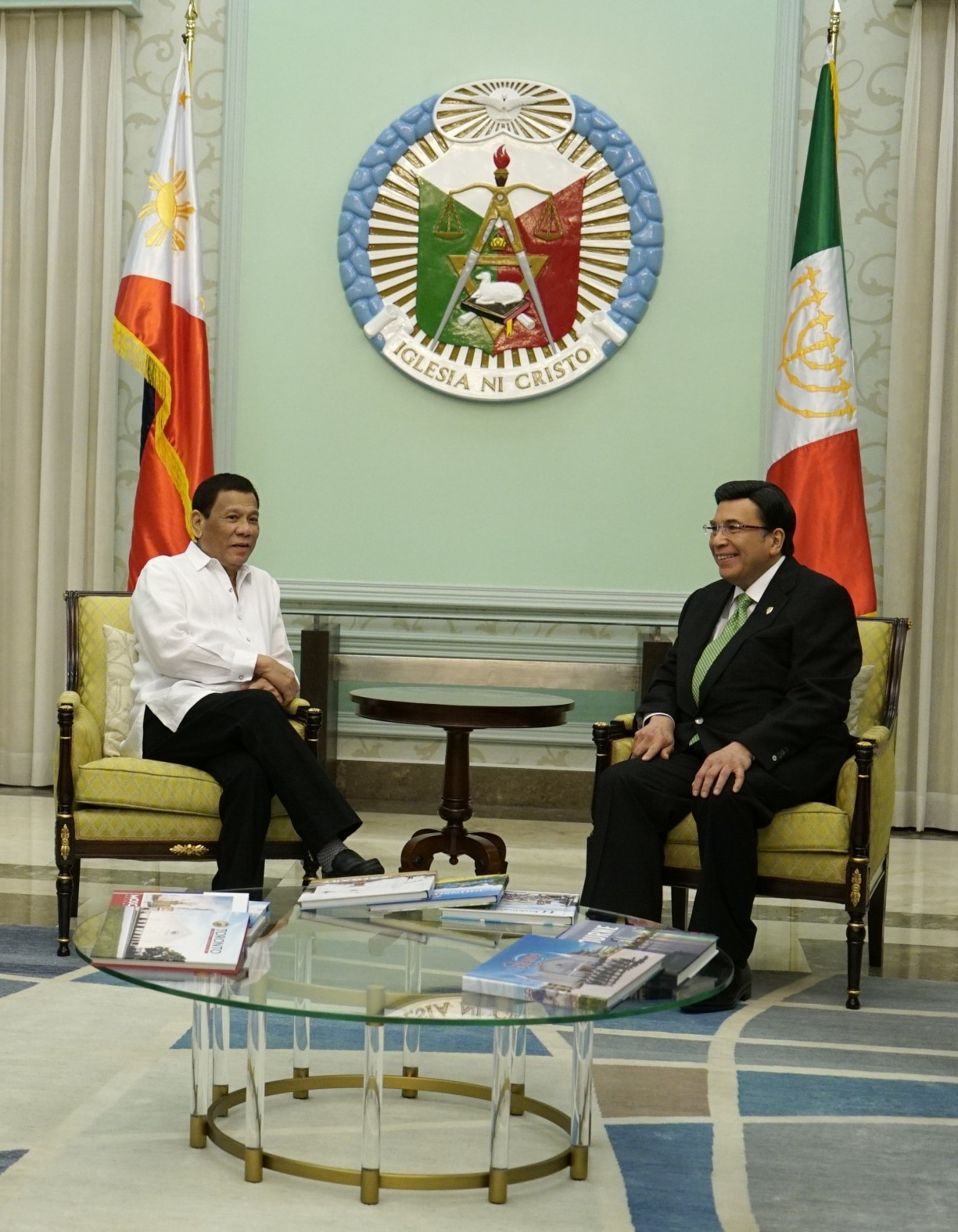 President Rodrigo R. Duterte receives a warm welcome from Iglesia Ni Cristo (INC) leader Eduardo Manalo during the President's visit at the INC Central Temple in Commonwealth, Quezon City on December 14, 2018.